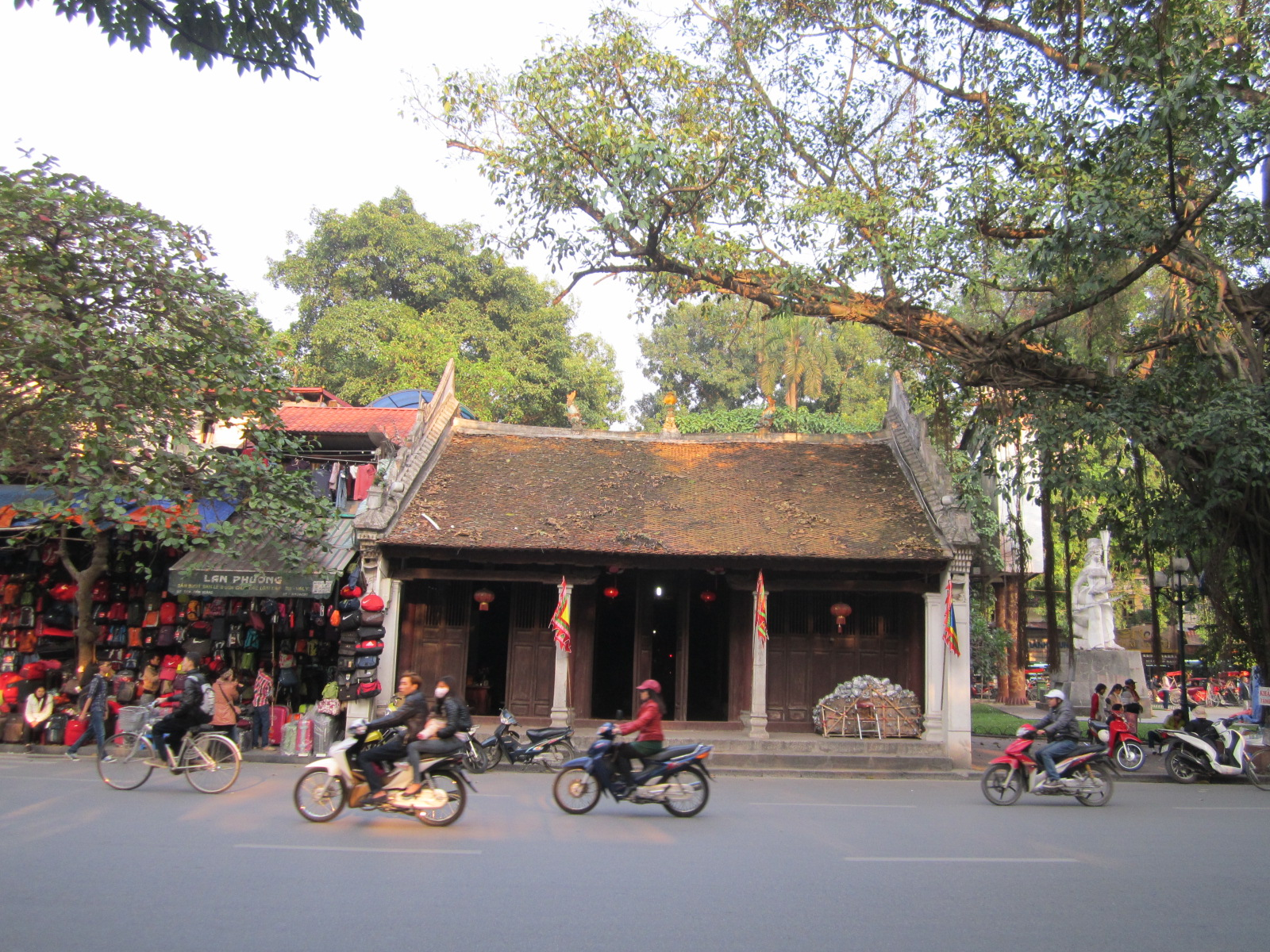 Ba Kieu Temple, HanoiTiếng Việt: Đền Bà Kiệu, Hà-nội